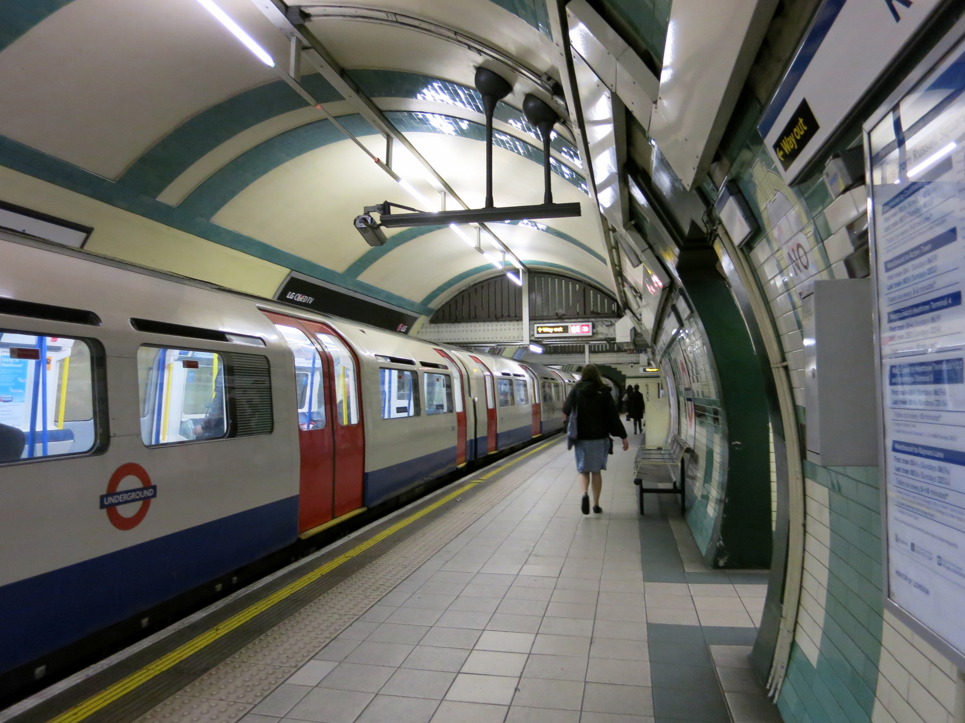 The eastbound Piccadilly Line platform at Gloucester Road tube station